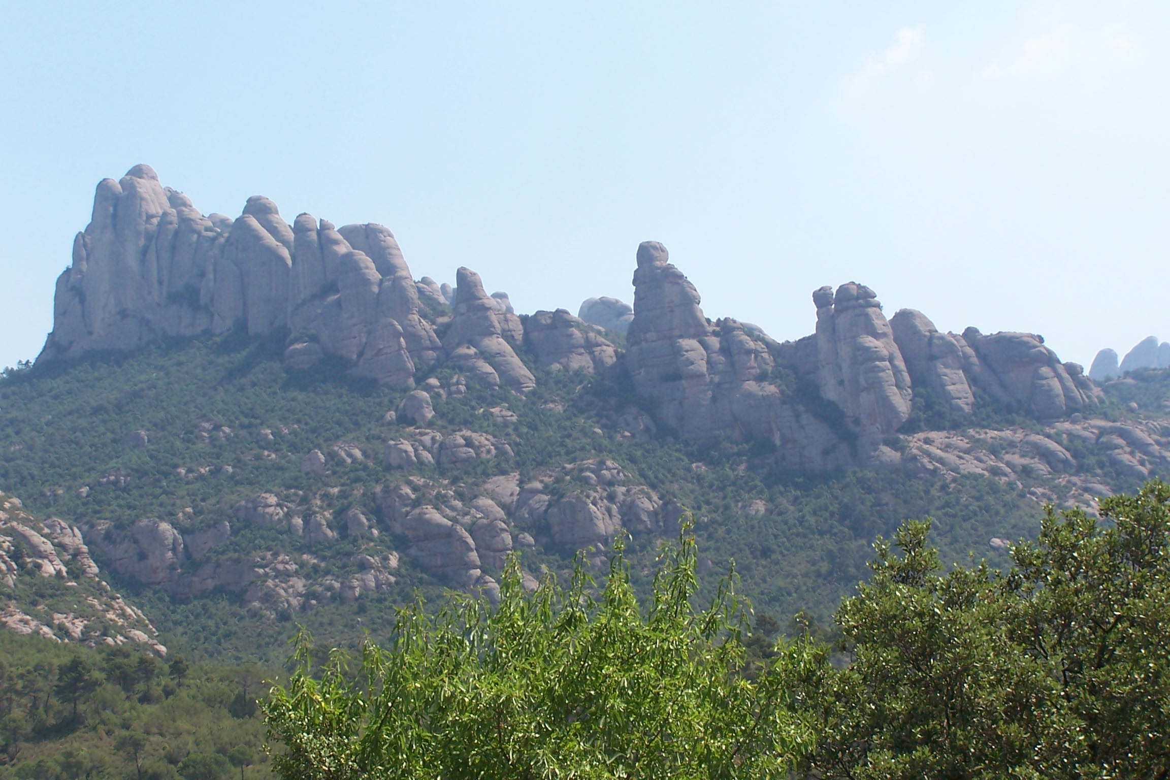 Montserrat, mountain in Catalonia/Catalunya. Eigen werk, 30-06-2006